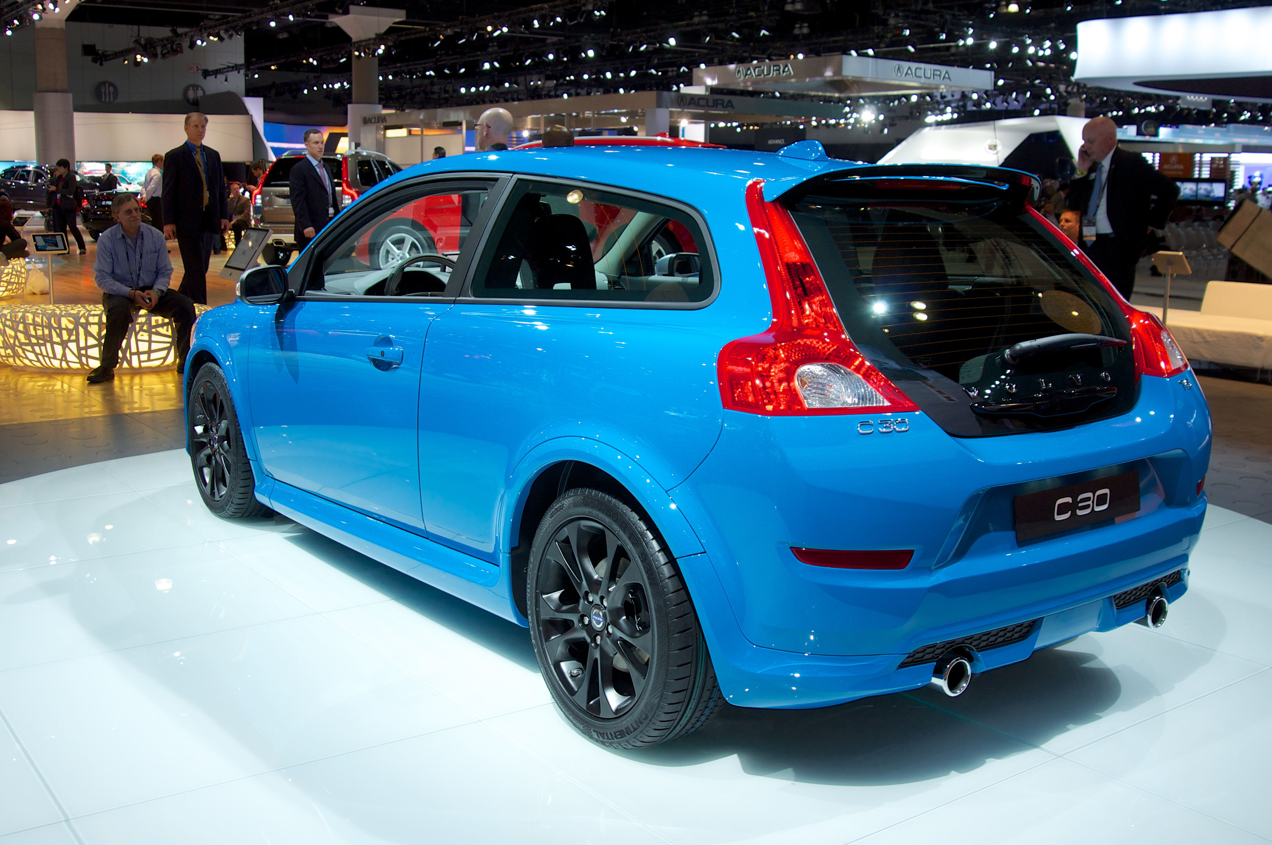 Seen at the 2012 Los Angeles Auto Show. Press day - Wednesday, November 28th. If you use one of my photos, please be so kind as to attribute me and link back to the photo's page. THANK YOU!